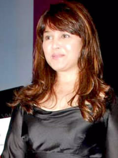 Alisha Chinai at Reliance Mobile 3G tie up with Universal Music